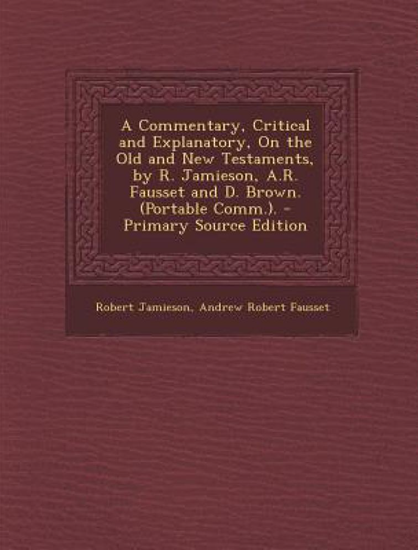 Front cover of A Commentary Critical and Explanatory on the Whole Bible, by Robert Jamieson, Andrew Robert Fausset and David Brown.